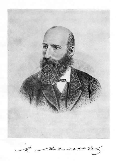 Portrait of Afanaseva from the collection "National Russian fairy tales"